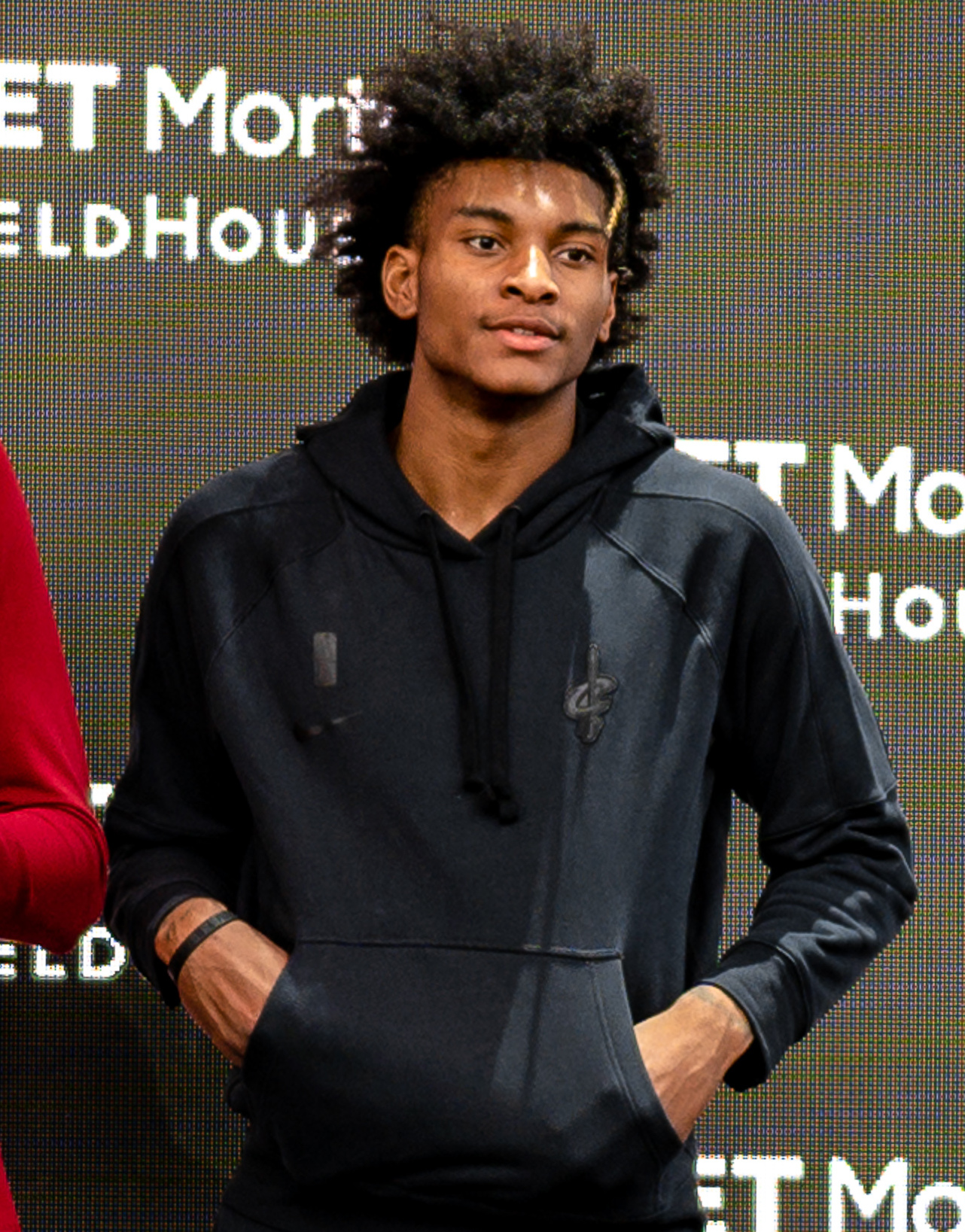 Members of the Cleveland Cavaliers at the grand opening of the Rocket Mortgage FieldHouse in Cleveland in 2019